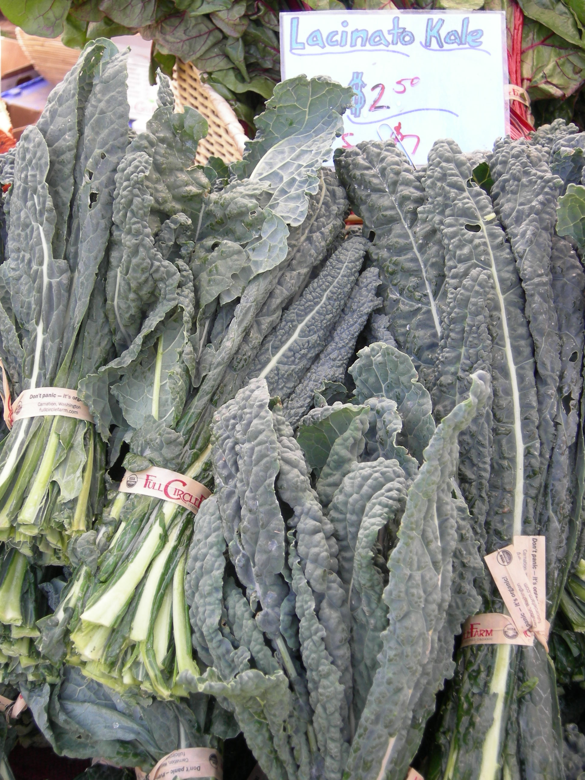 Lacinato kale (Cavolo nero), Seattle Tilth Harvest Festival, Meridian Park (adjacent to the Good Shepherd Center), Wallingford, Seattle, Washington. Technically, a Lobster mushroom is not a mushroom: it is a parasitic mold that grows on mushrooms, turning them a reddish orange color.